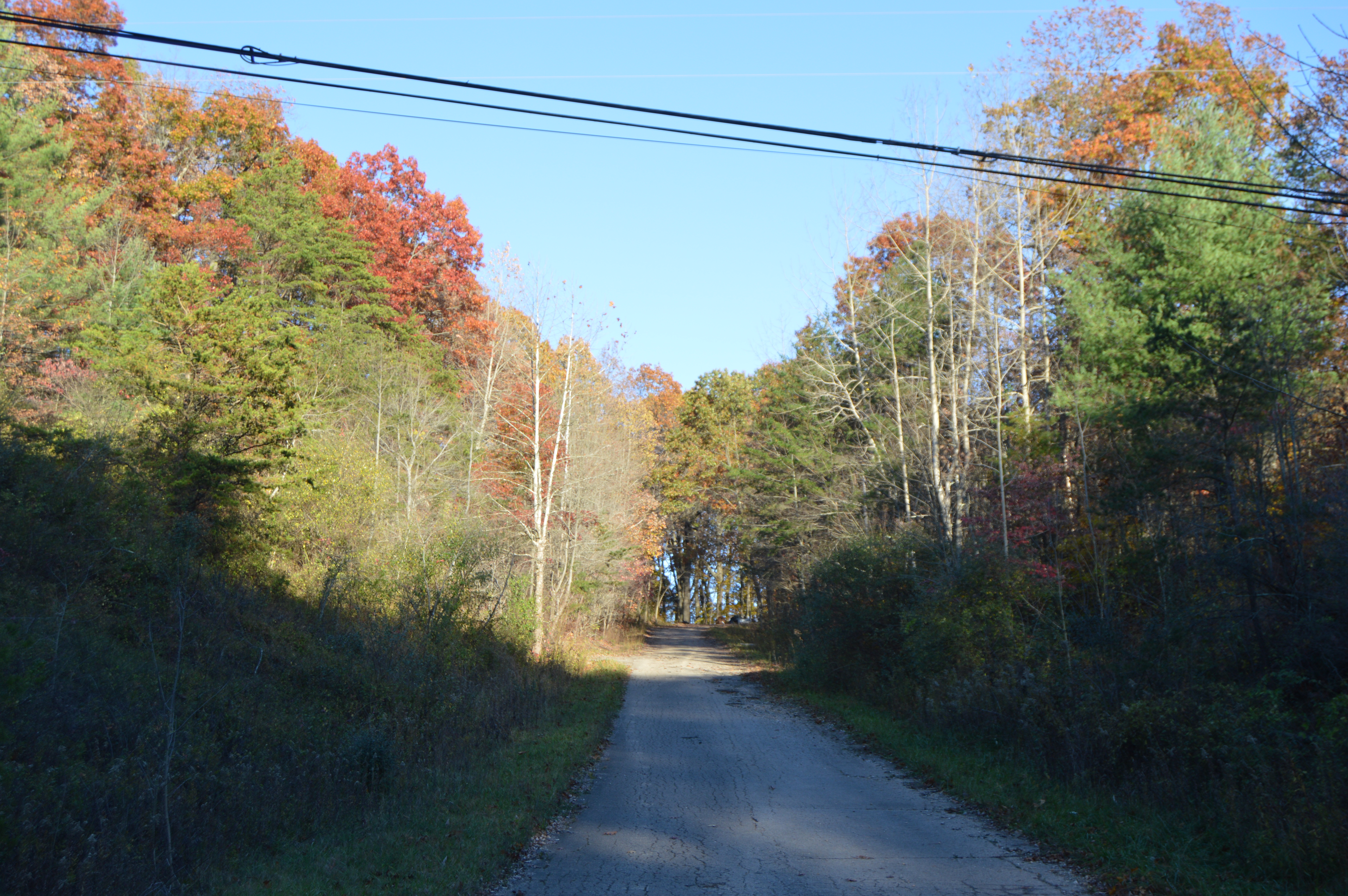 Looking east on Loop Road from the State Route 278 intersection, north of Nelsonville, in Ward Township, Hocking County, Ohio, United States.